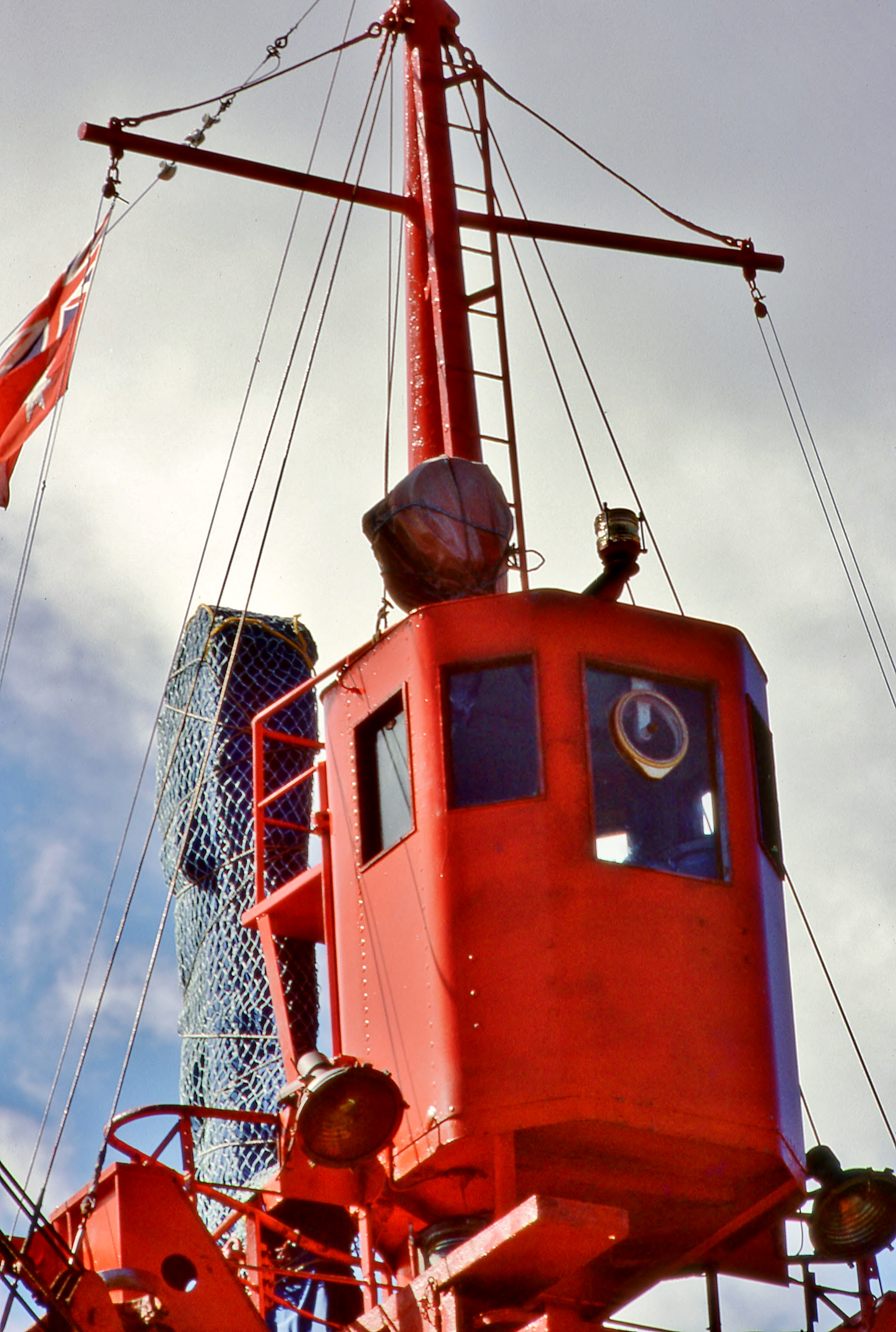 Crow's nest on the foremast of a polar ship (MV Thala Dan).